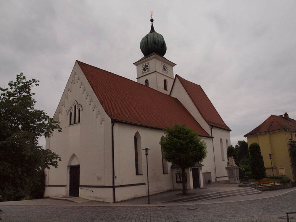 Catholic church “St. Severin” (Severinus of Noricum) in Passau-Heining, Germany